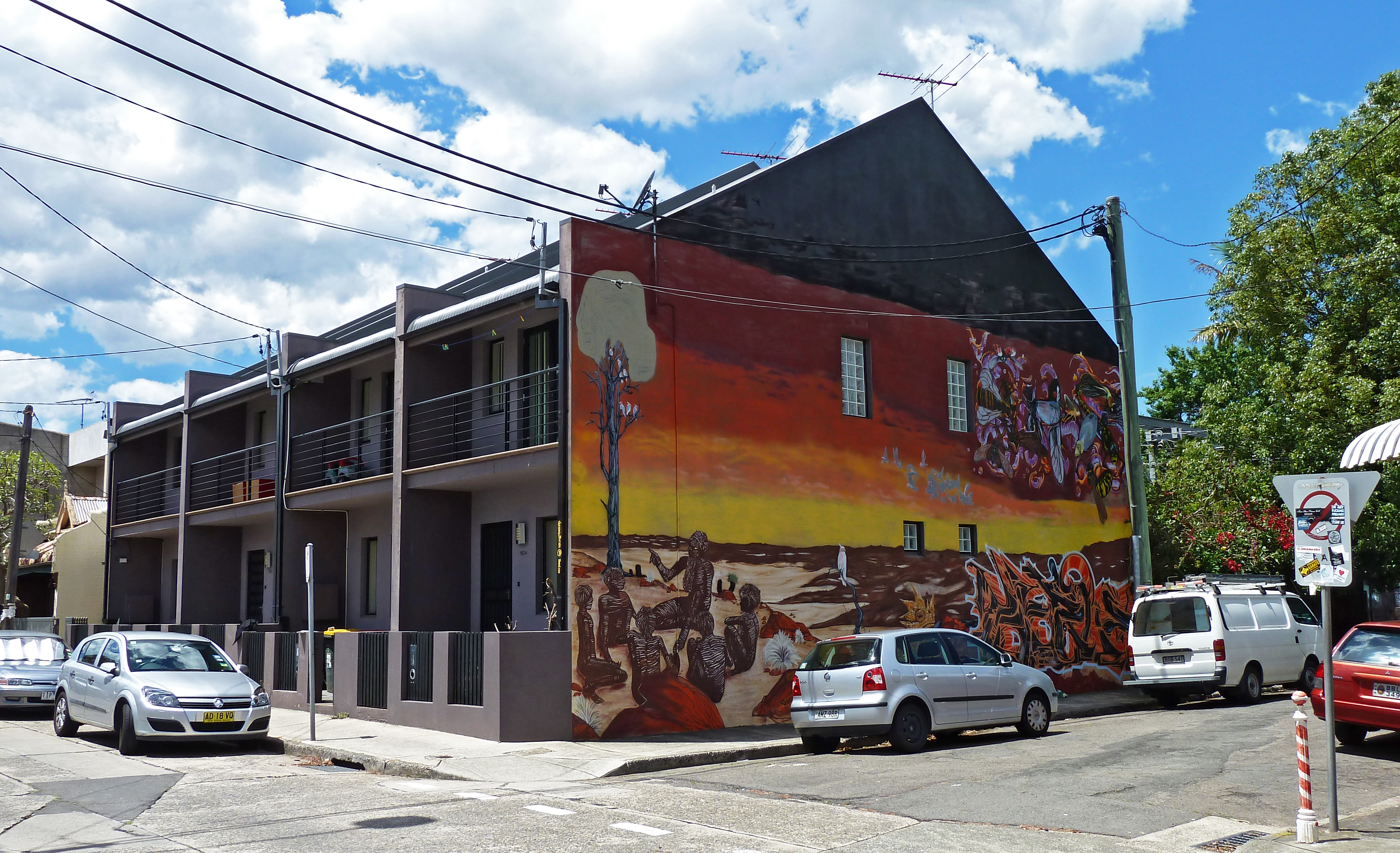 100–102 Lord Street, Newtown, New South Wales, Australia.